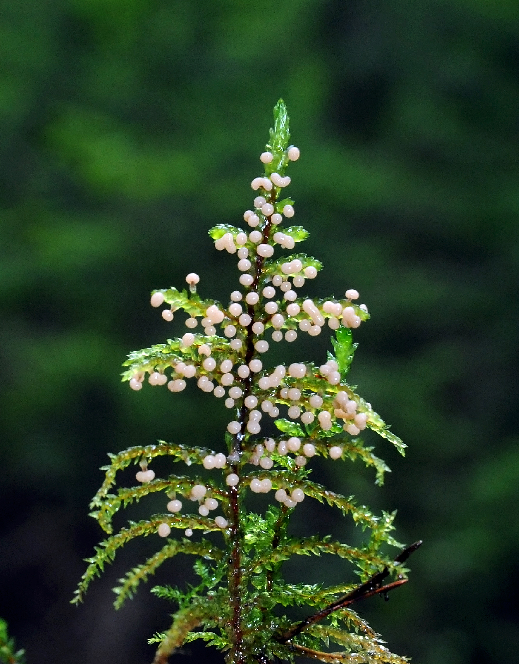 Myxomycetes of the genus Didymium on moss Pleurozium schreberi